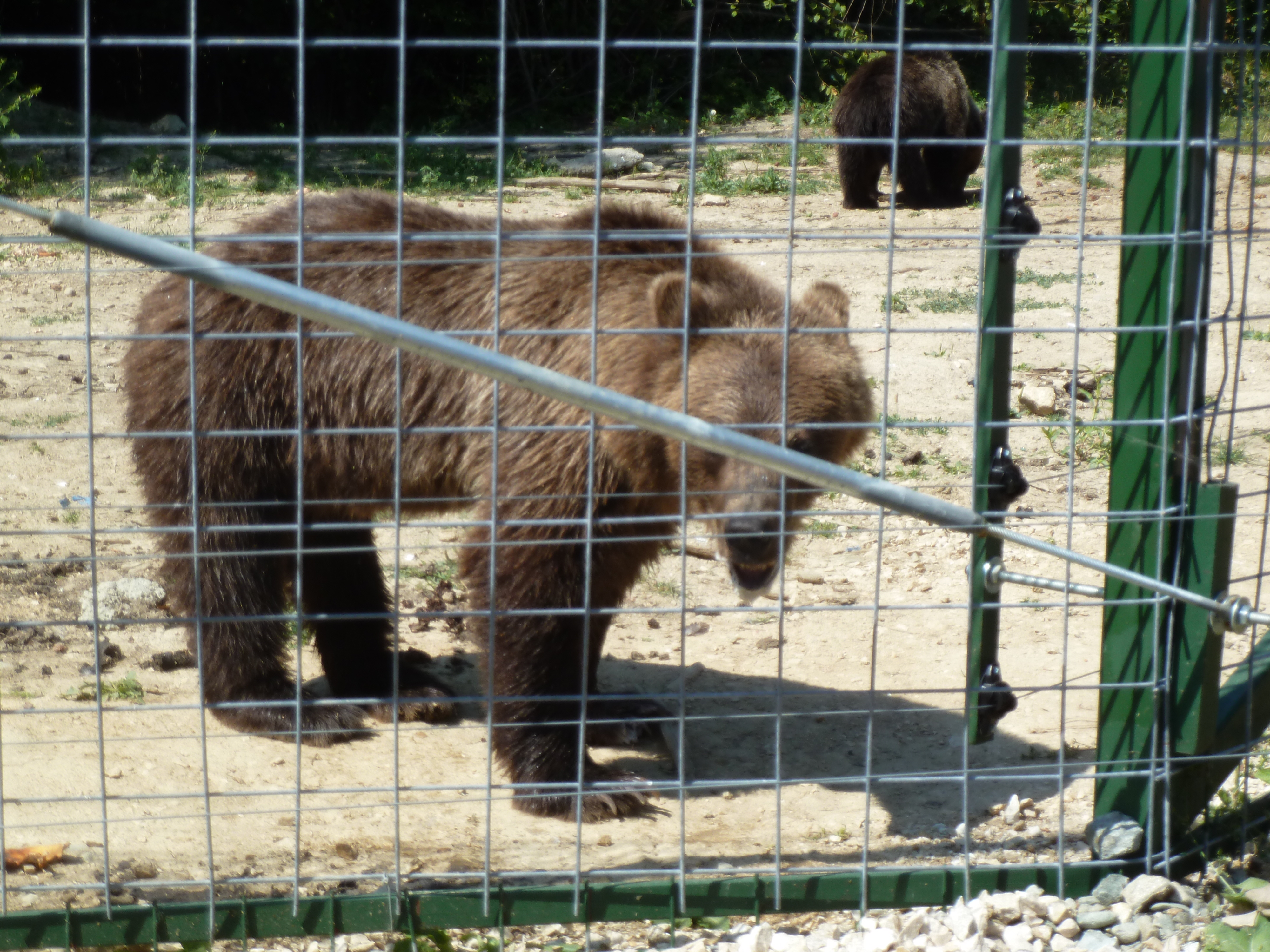 Libearty Bear Sanctuary: Bim (in front) and Bam